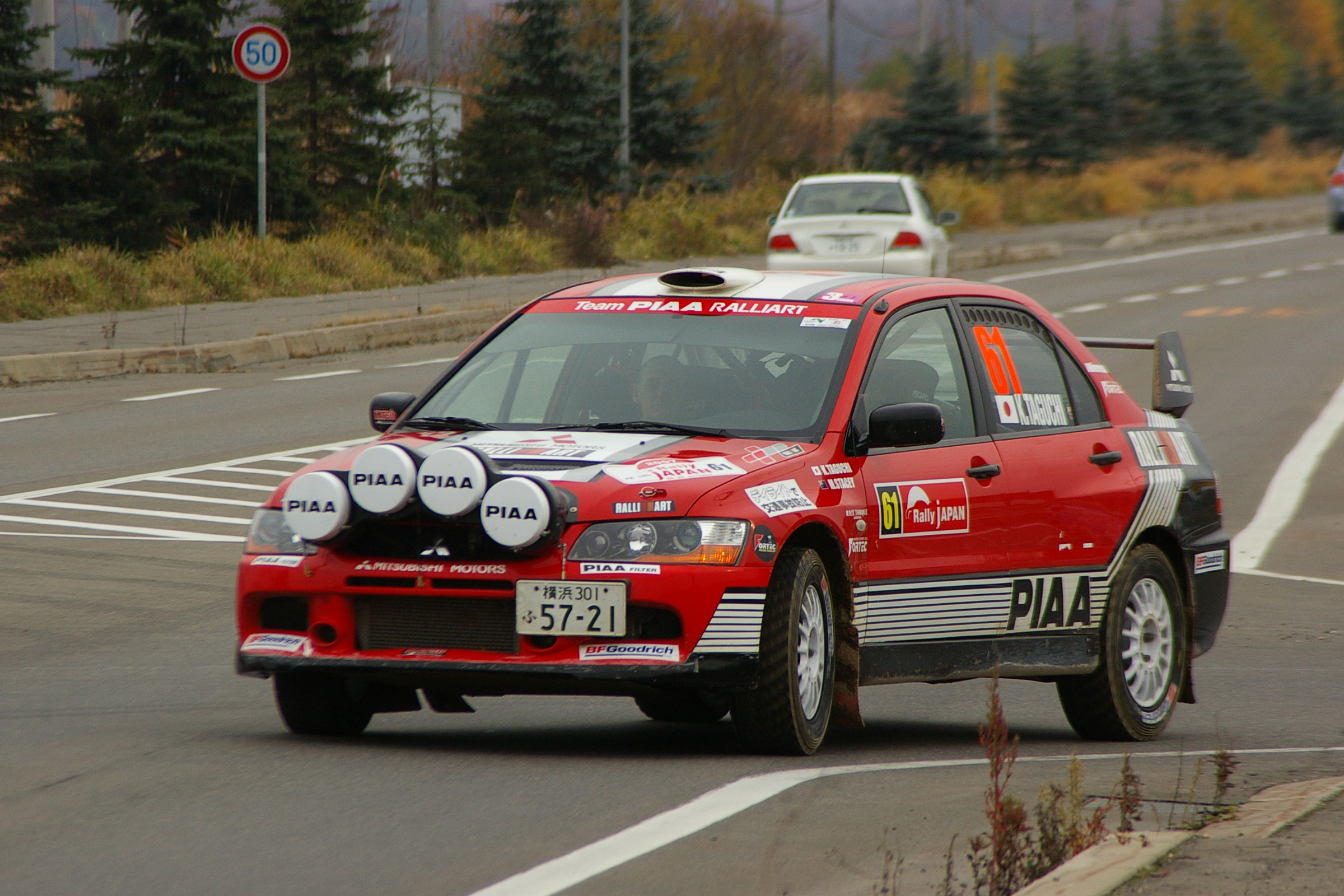 Mitsubishi Lancer Evolution9 Rally car Katsuhiko Taguchi, Rally Japan 2007.